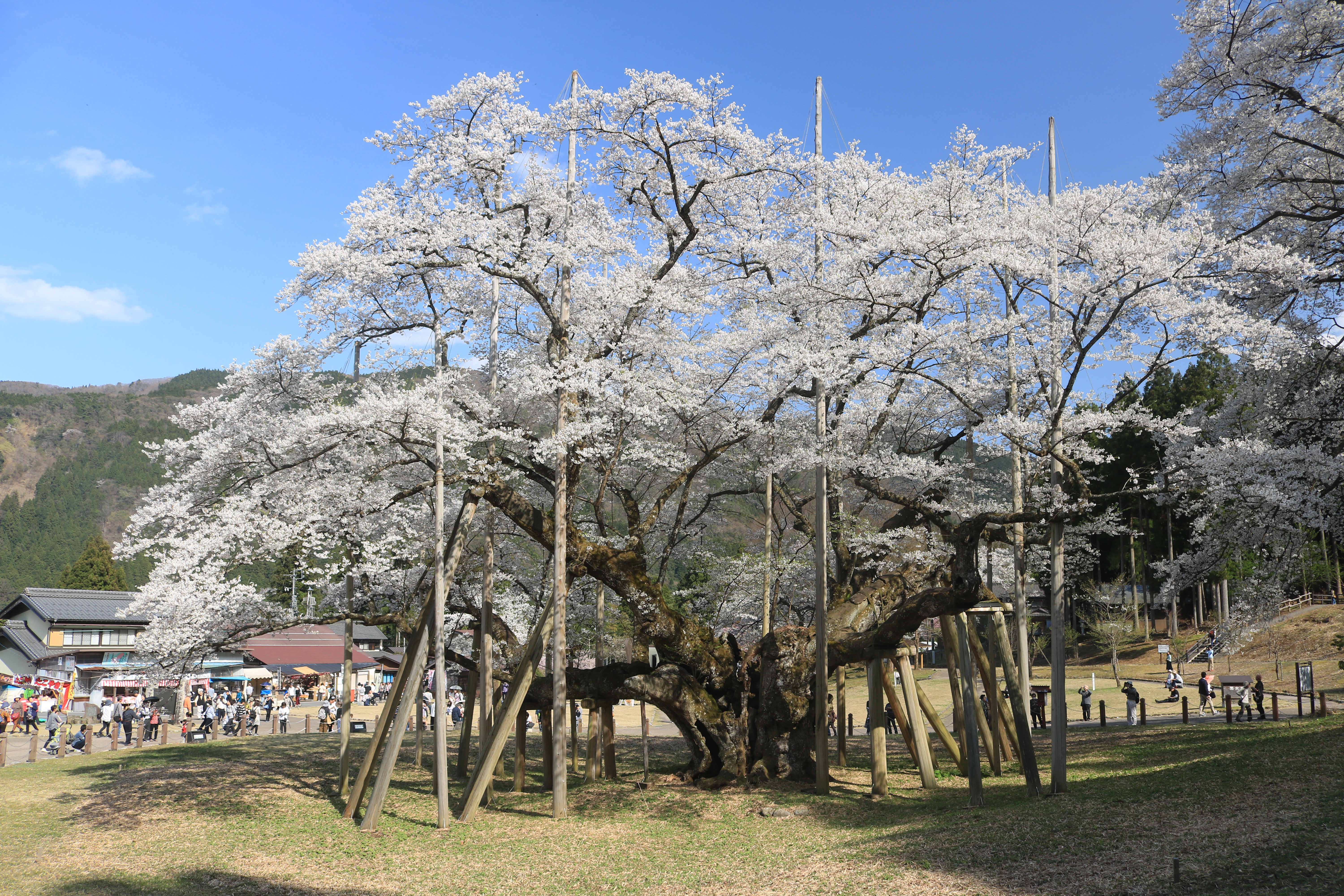 Usuzumi zakura (Prunus subhirtella var. pendula f. ascendens) in Motosu, Gifu Prefecture, Japan.